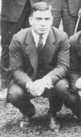 Ralph Vince before the 1922 Rose Bowl.